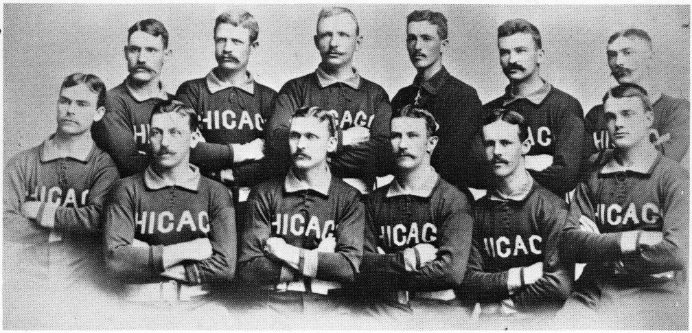 The roster of the 1885 Chicago White Stockings (known today as the Chicago Cubs)Top row, left to right: George Gore, Silver Flint, Cap Anson, Sy Sutcliffe, King Kelly, Fred PfefferBottom row, left to right: Larry Corcoran, Ned Williamson, Abner Dalrymple, Tom Burns, John Clarkson, Billy Sunday